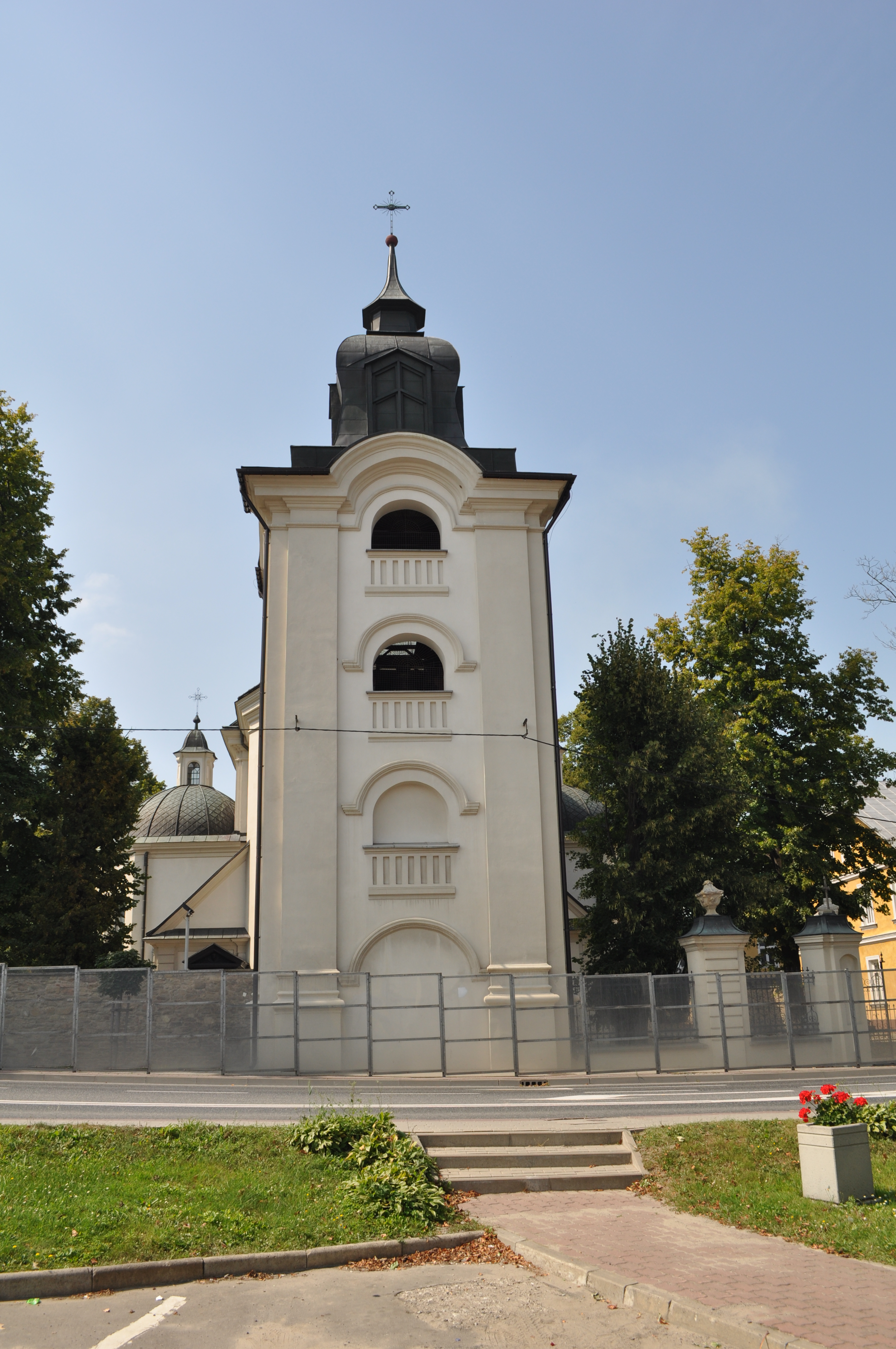 Church in Dukla